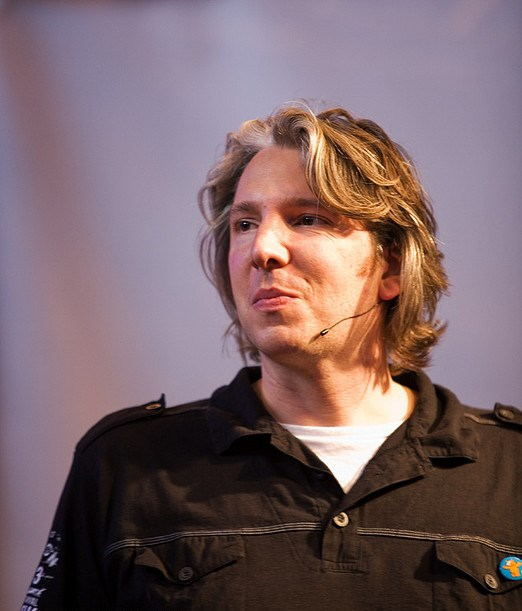 A photo was taken by me in England during a press conference